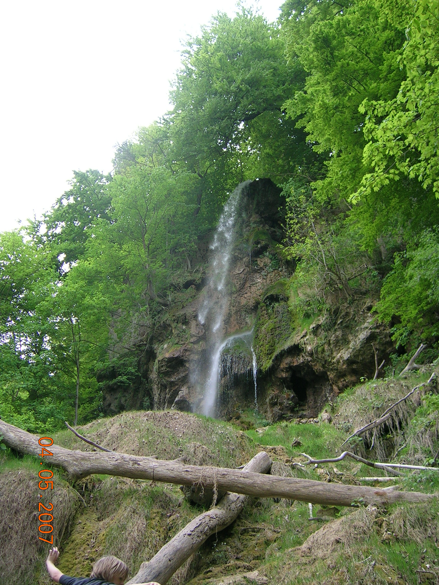 Waterfall in Bad Urach.